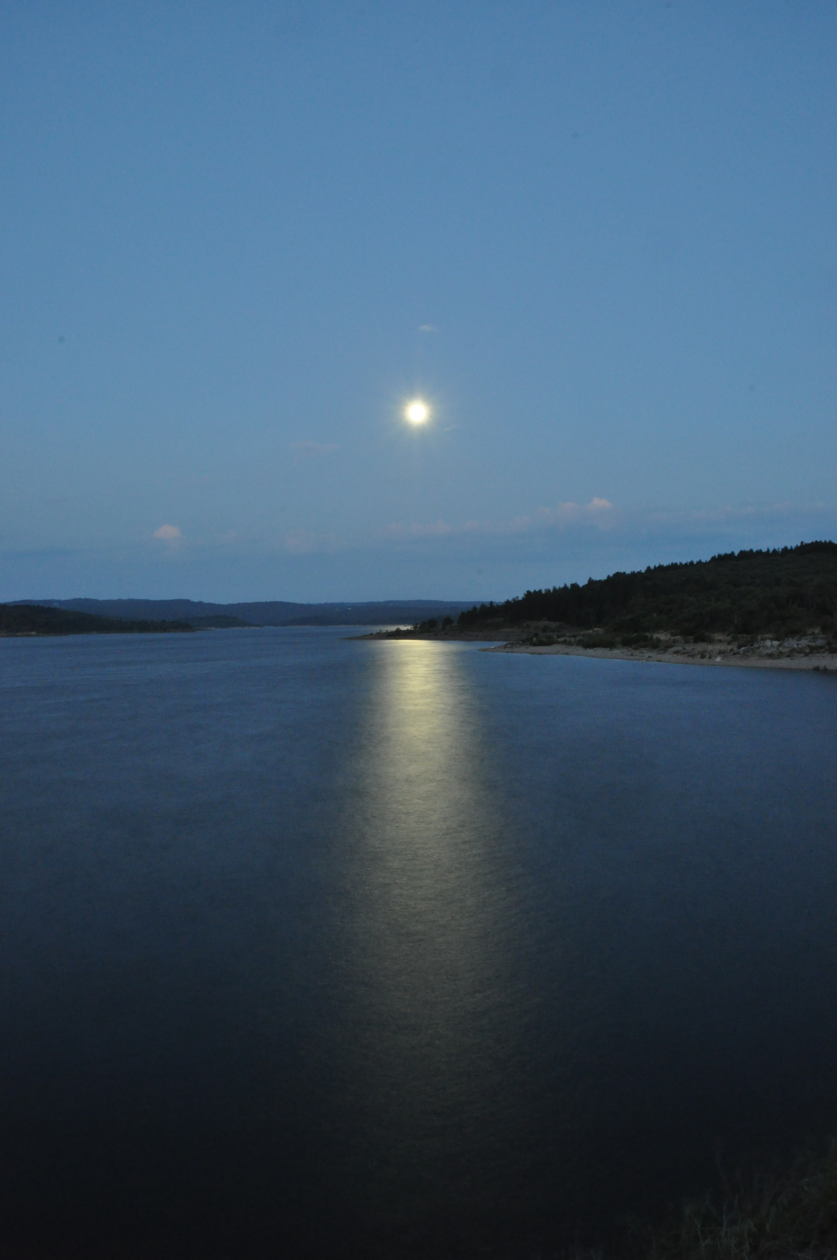 8 second exposure with tripod. According to NASA the "SuperMoon" would appear 14% larger (though not significant to the naked eye) and quite a bit brighter.